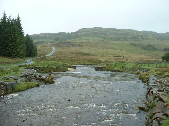 Afon Gain. From Pont Dol-y-mynach. The road from Trawsfynydd is on the left.